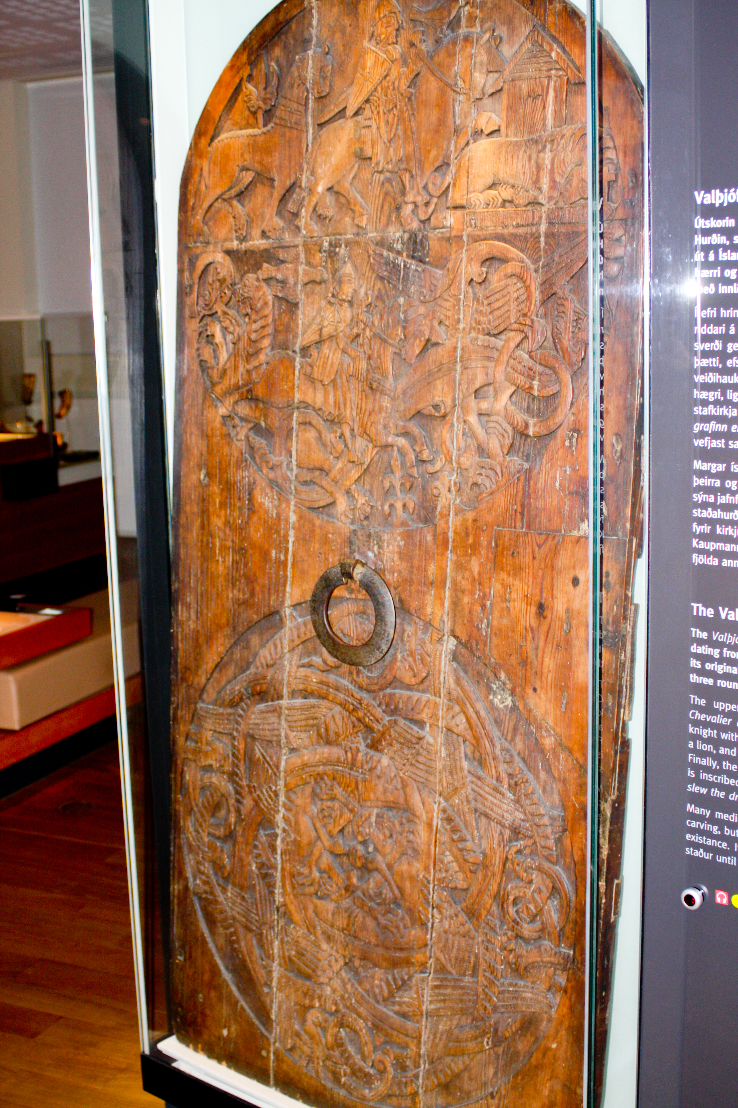 The Valþjófsstaður Doorat the Iceland National Museum. The upper roundel depicts a well known medieval tale, Le Chevalier au Lion, in three episodes. At the bottom we see a knight with his hunting falcon. He kills a dragon which has caught a lion, and then the lion is depicted gratefully following the knight. Finally, the lion lies at the knight’s grave, mourning him. The grave is inscribed in runes: Behold the mighty king here buried who slew this dragon. In the lower roundel are four interlaced dragons. Many medieval Icelandic churches were ornamented with woodcarving, but the Valþjófsstaður door is the only carved door still in existence. It remained in use in successive churches at Valþjófsstaður until 1851.